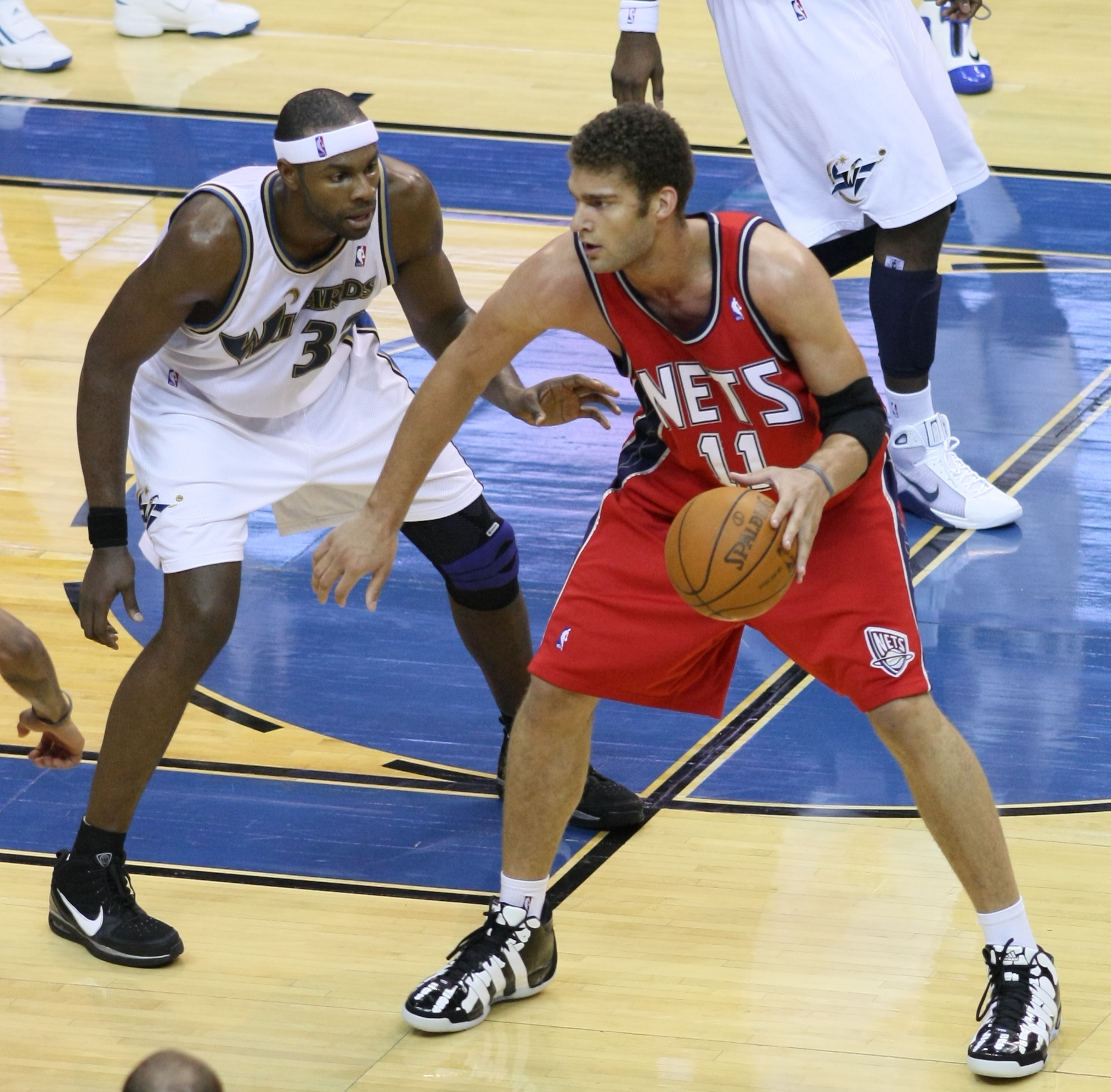 Washington Wizards v/s New Jersey Nets October 31, 2009 at Verizon Center in Washington, D.C.